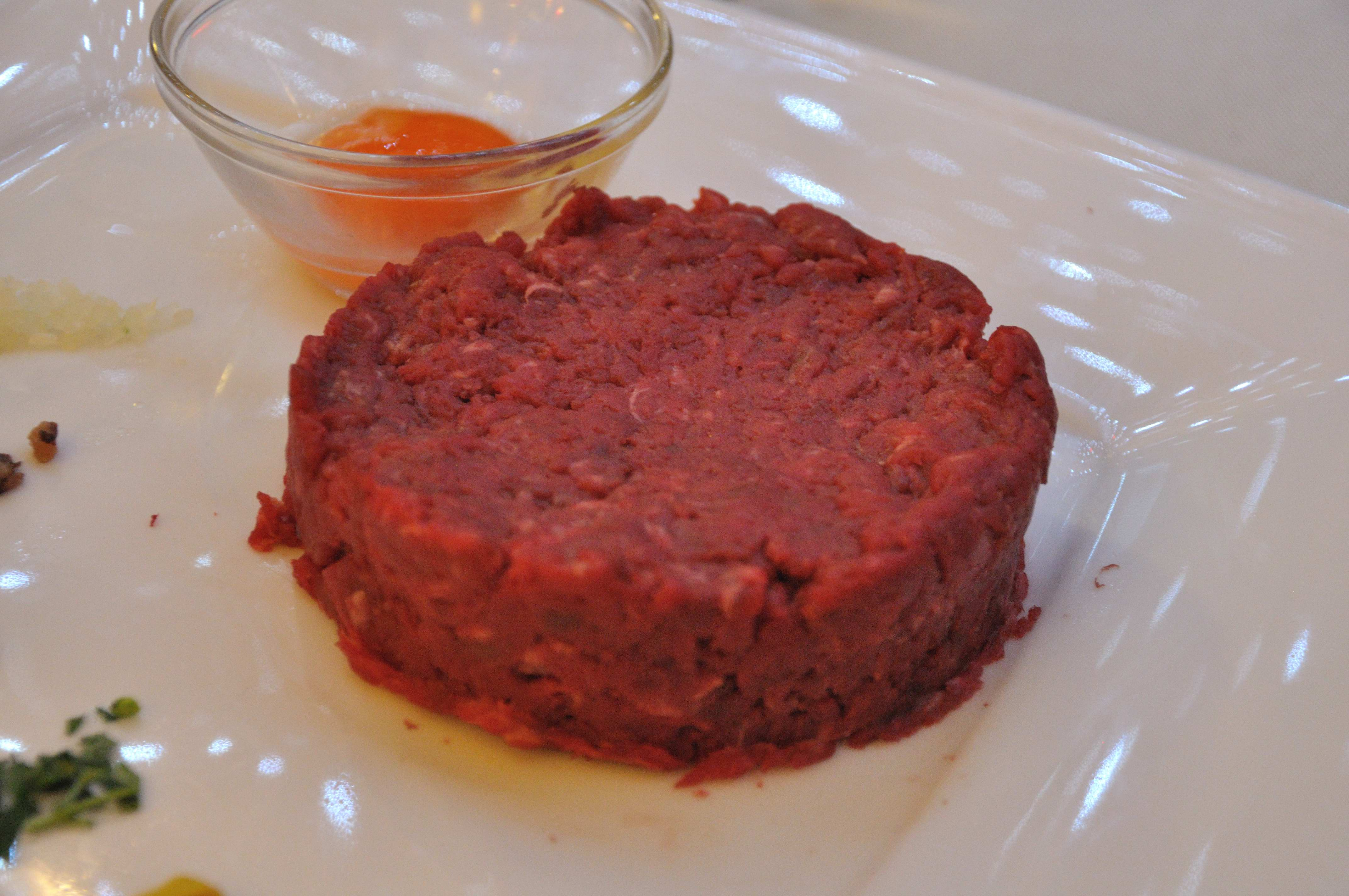 Steak tartare in Milano